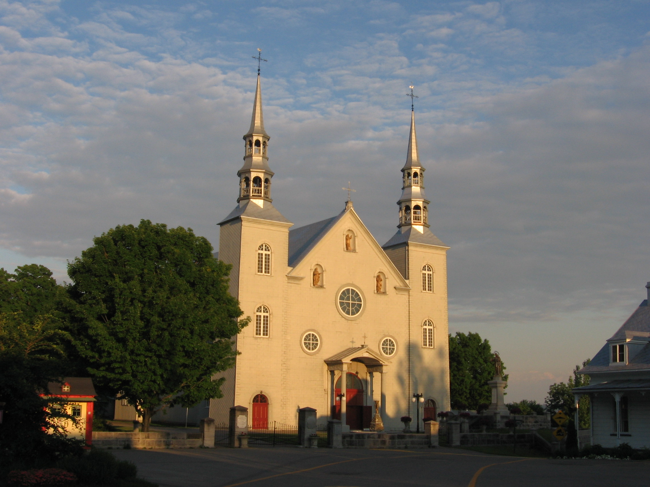 Cap-Santé church